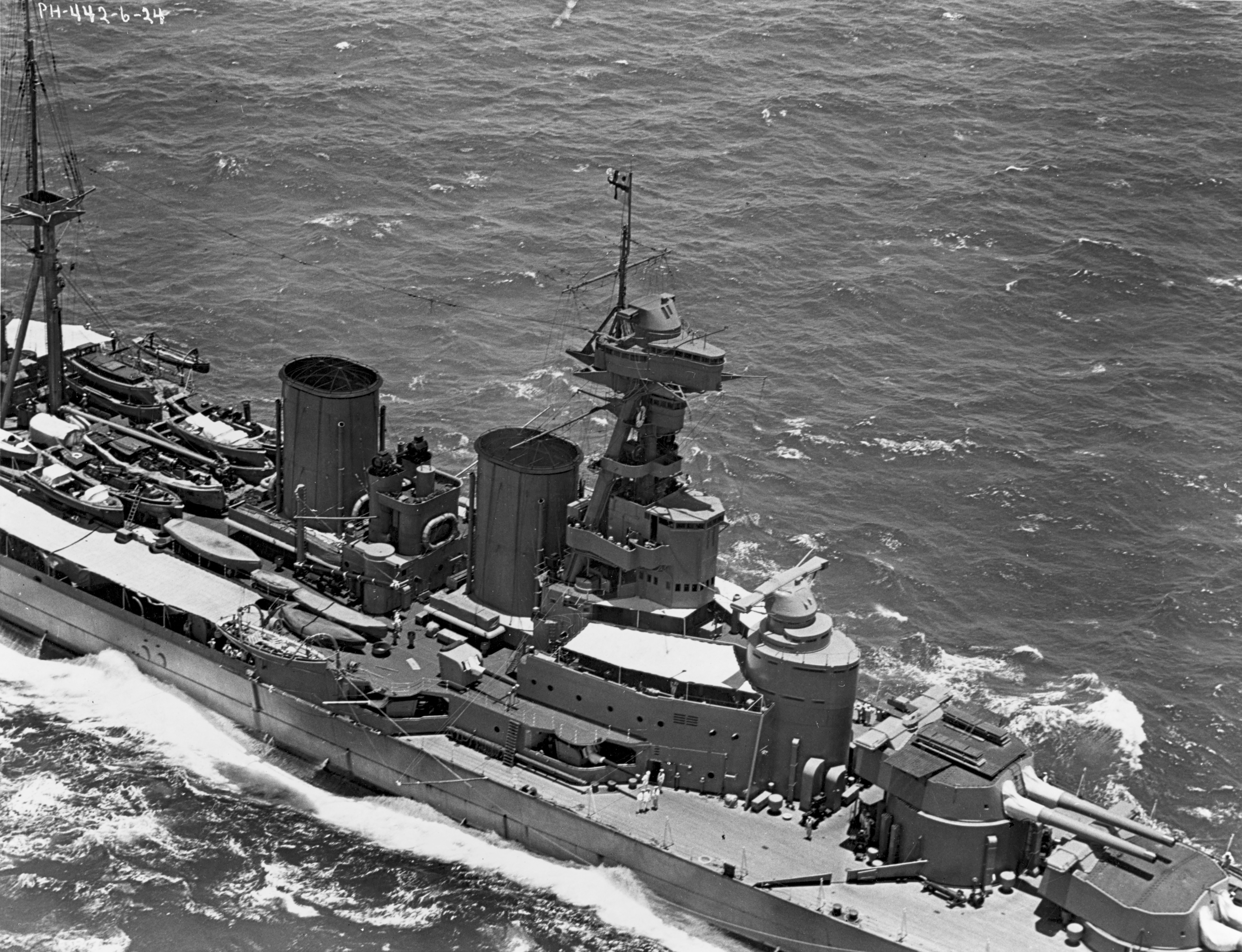 British battlecruiser HMS Hood Original description: Aerial view of the ship's starboard midships area, taken by a plane from Naval Air Station, Pearl Harbor, while Hood was off Honolulu, Hawaii, on 12 June 1924. Note rangefinders atop the conning tower and foremast top; 15-inch twin gun turrets, with a partially disassembled aircraft platform atop "B" turret; and boats stowed amidships.